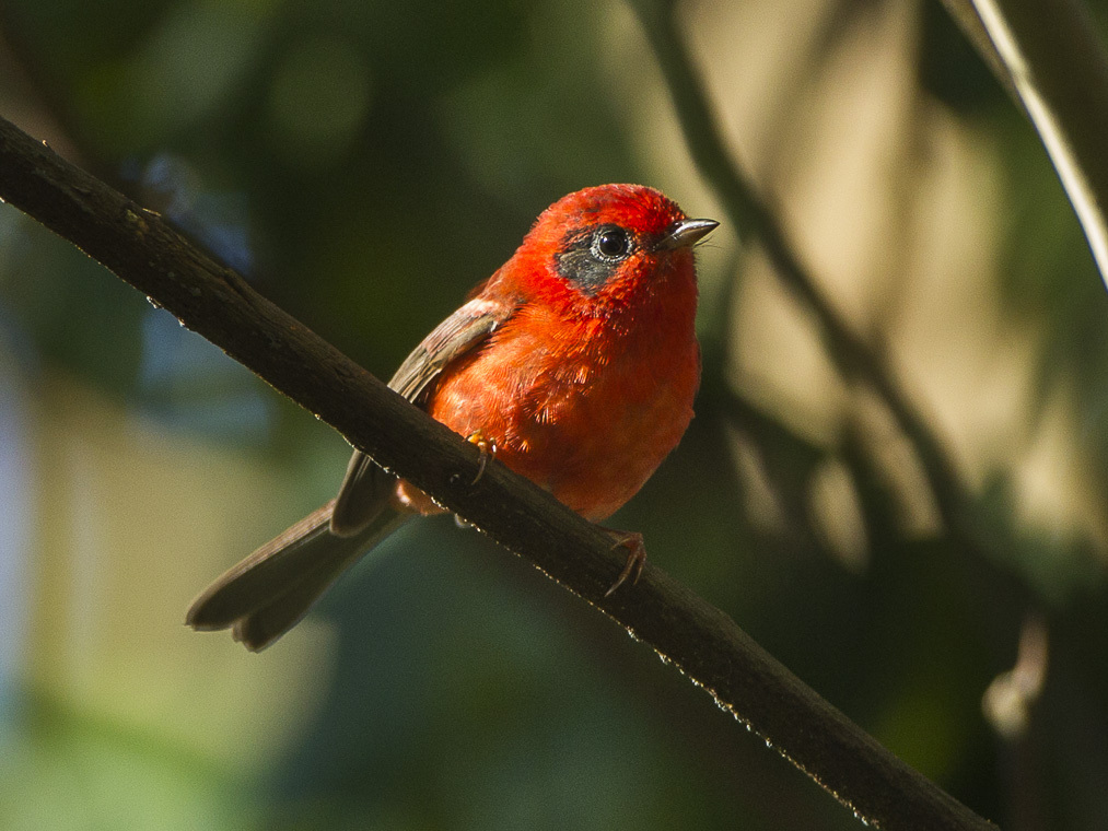 Red Warbler - Sinaloa - Mexico_S4E1238